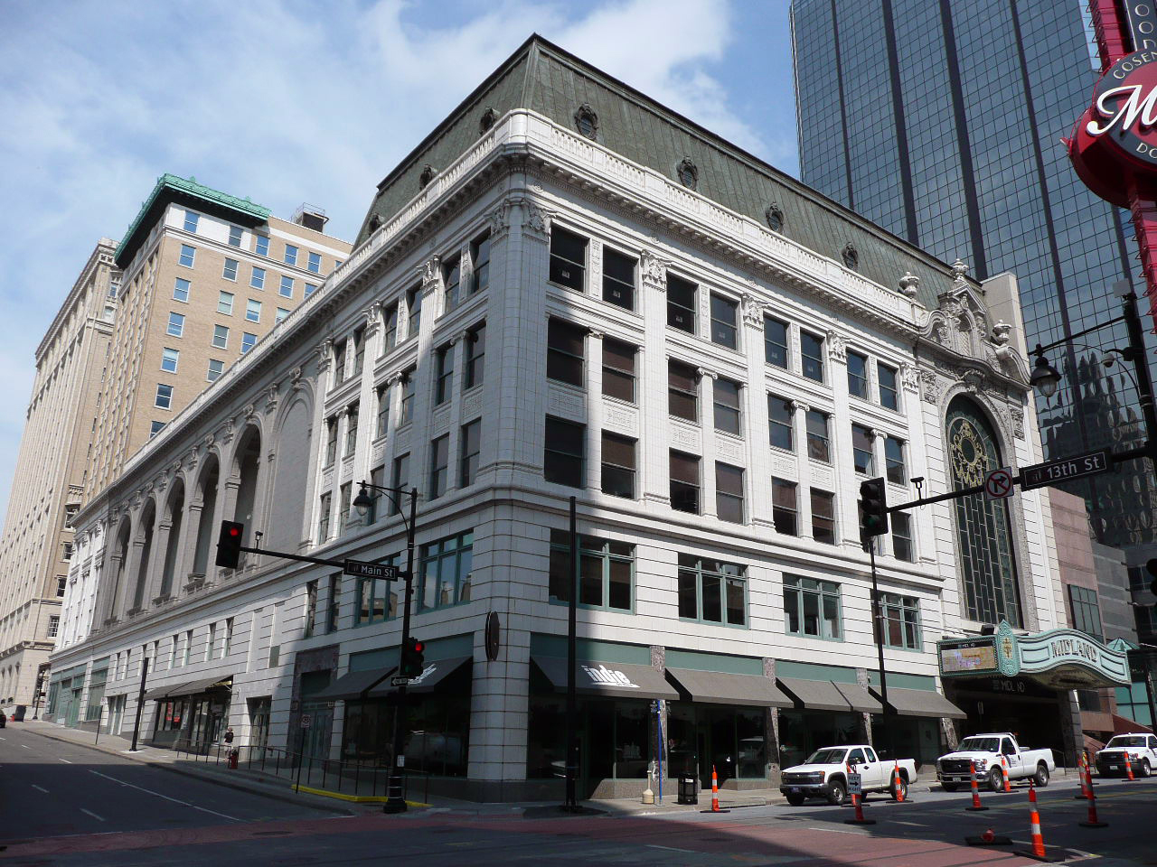 Loew's Midland Theater-Midland Building